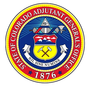 Seal of the Colorado Adjutant General's Office, the military office in charge of Colorado's National Guard and State Defense units